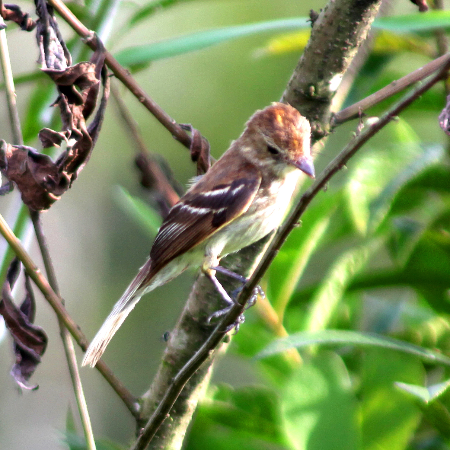 Bran-colored Flycacher at Bertioga - SP _Brazil